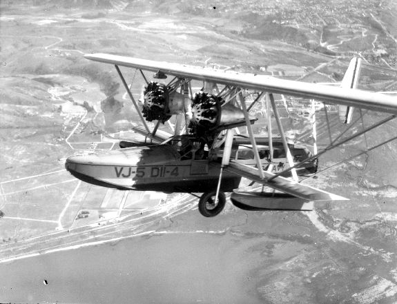 A VJ-5 Sikorsky RS-3 that was redesignated PS-3 an served as a transport for the Eleventh Naval district. VJ-5 D11-4 (8285) in March 1930. Photo by JMF Haase via San Diego Aero Space Museum From the Haase Collection JMF Haase Collection This selection of beautiful photographs of early Navy aircraft is from the J.M.F. (Joseph Malta F.) Haase collection, courtesy of the San Diego Aero Space Museum. J.M.F. “Bunny” Haase was a Navy Chief photographer who documented all the aviation activities from the early 1920 through the early 1930s at North Island that at the time encompassed the Army’s Rockwell Field and NAS San Diego. His large collection also covers civilian and Army aircraft as well. His air-to-air photographs are featured in many aviation reference books but usually under the credit line of US Navy. Chief Haase also participated in the second Alaskan Aerial Survey in 1929 and was responsible for the first US motion picture of the sun’s eclipse done in 1930 that was done from an aircraft.